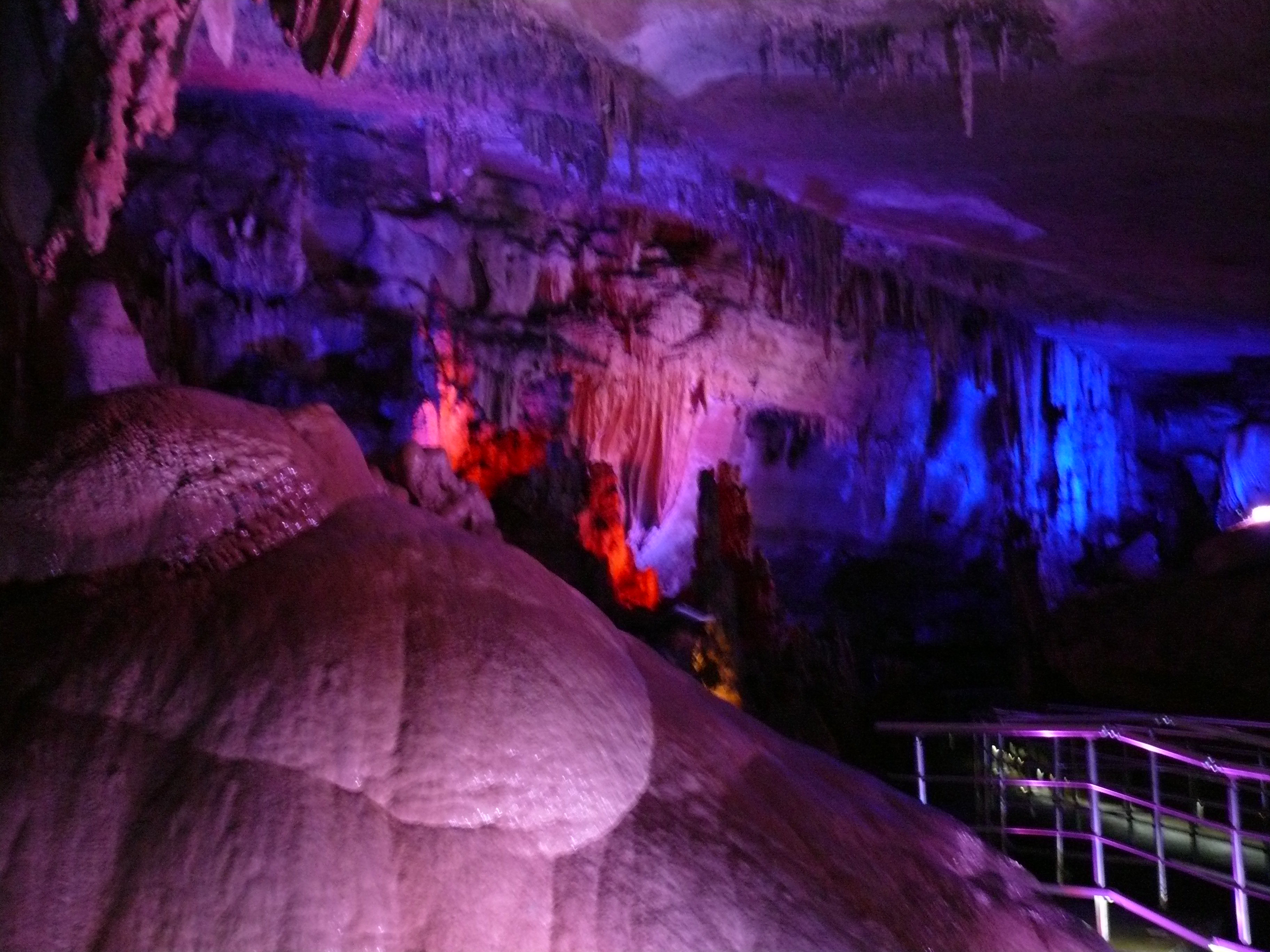 Sataplia karst caves